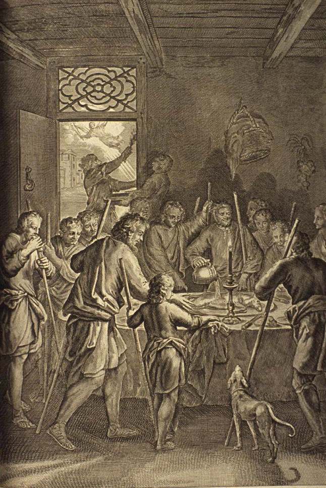 The Israelites eat the Passover, as in Exodus 12:1-8, 27b: "And the Lord spake unto Moses and Aaron in the land of Egypt, saying, This month shall be unto you the beginning of months: it shall be the first month of the year to you. Speak ye unto all the congregation of Israel, saying, In the tenth day of this month they shall take to them every man a lamb, according to the house of their fathers, a lamb for an house: And if the household be too little for the lamb, let him and his neighbour next unto his house take it according to the number of the souls; every man according to his eating shall make your count for the lamb. Your lamb shall be without blemish, a male of the first year: ye shall take it out from the sheep, or from the goats: And ye shall keep it up until the fourteenth day of the same month: and the whole assembly of the congregation of Israel shall kill it in the evening. And they shall take of the blood, and strike it on the two side posts and on the upper door post of the houses, wherein they shall eat it. And they shall eat the flesh in that night, roast with fire, and unleavened bread; and with bitter herbs they shall eat it. ...It is the sacrifice of the Lord's passover, who passed over the houses of the children of Israel in Egypt, when he smote the Egyptians, and delivered our houses. And the people bowed the head and worshipped."; illustration from the 1728 Figures de la Bible; illustrated by Gerard Hoet (1648–1733) and others, and published by P. de Hondt in The Hague; image courtesy Bizzell Bible Collection, University of Oklahoma Libraries